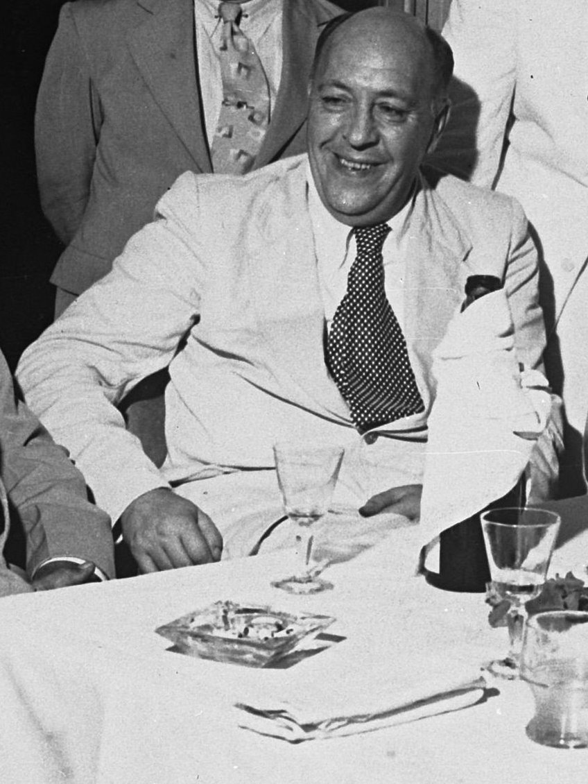 Dutch novelist Piet Bakker, 3 November 1947. Occasion unknown, possibly at a dinner party on the occasion of the publication of the 3rd edition of Piet Bakker's book Jeugd in de Pijp (Elsevier, 1947)